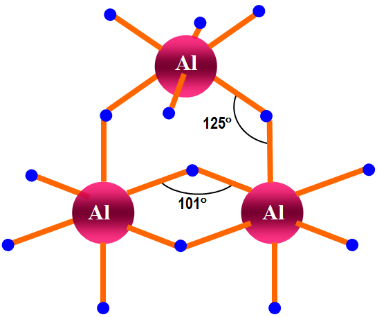 The Crystal Structure of γ-AlH3